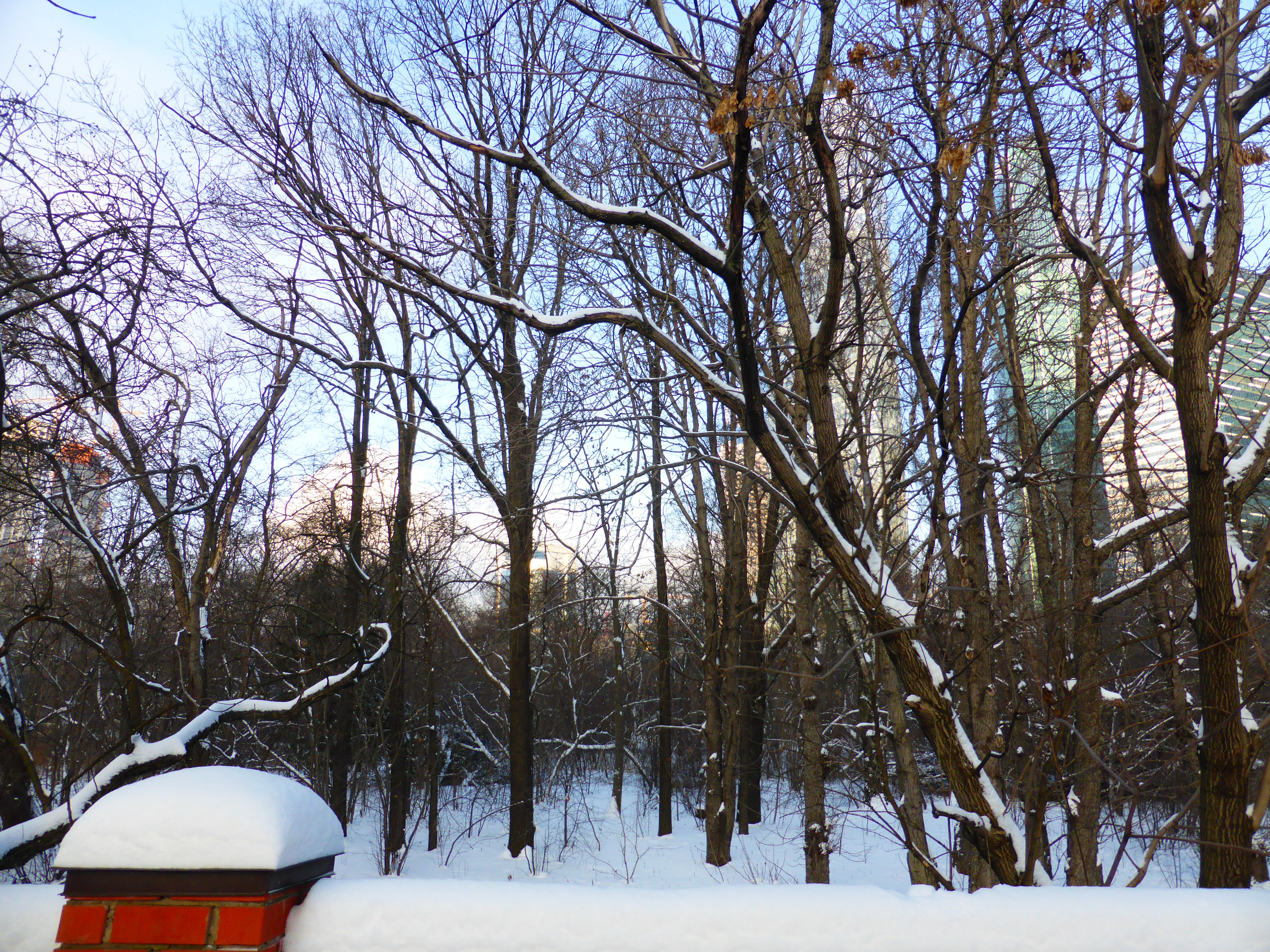 Botanical garden of medicinal plants of Moscow medical Academy. I. M. Sechenov